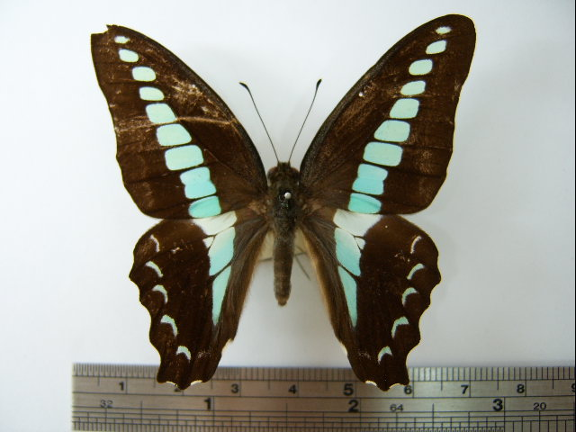 Kerry took this picture at his house on 16 July 2005 Scientific name: Graphium sarpedon connectens (back) Date of collection: VIII 1996 Place of collection: Taipei city, Taiwan